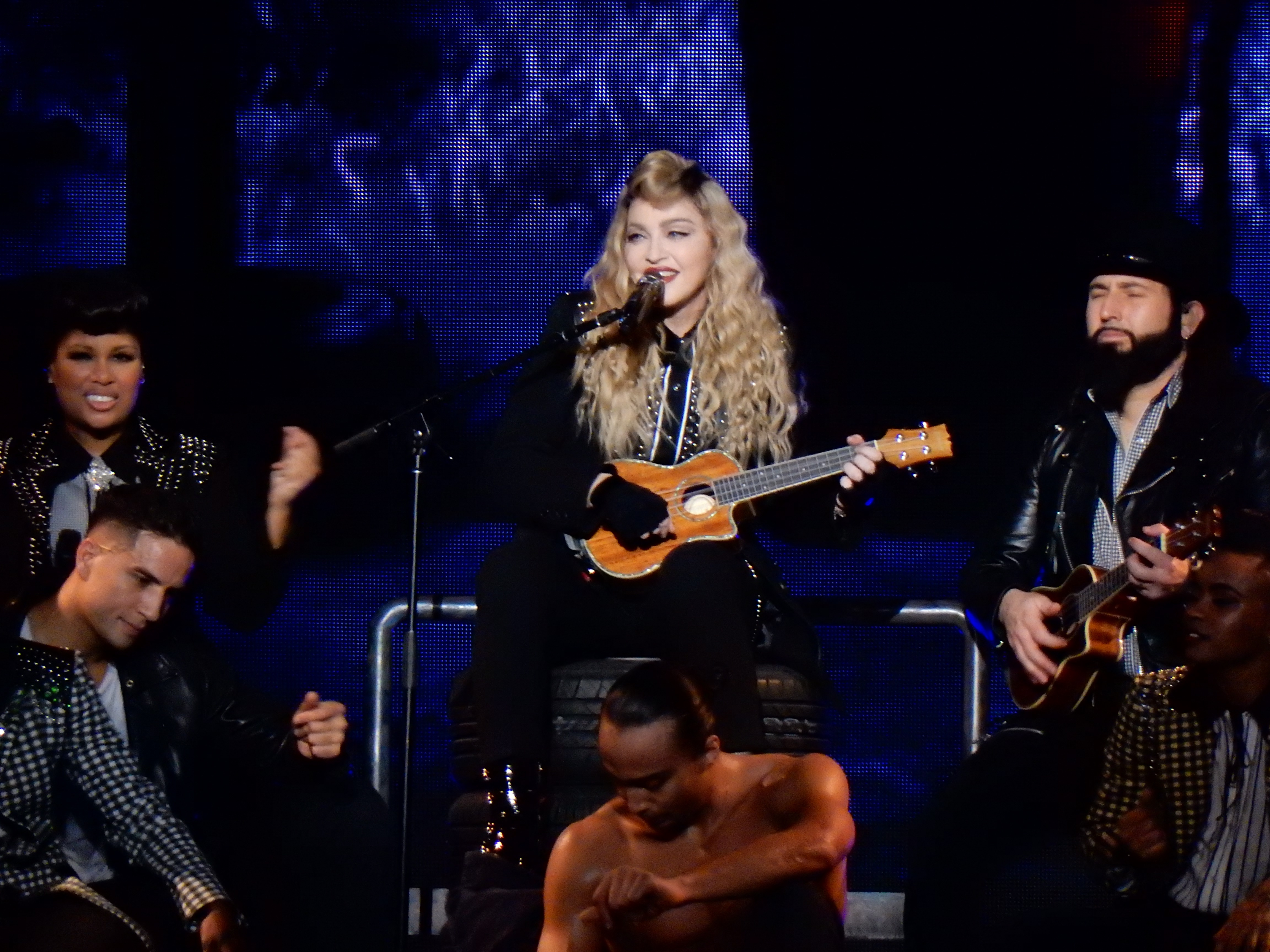 Madonna - Rebel Heart Tour 2015 - Paris 2